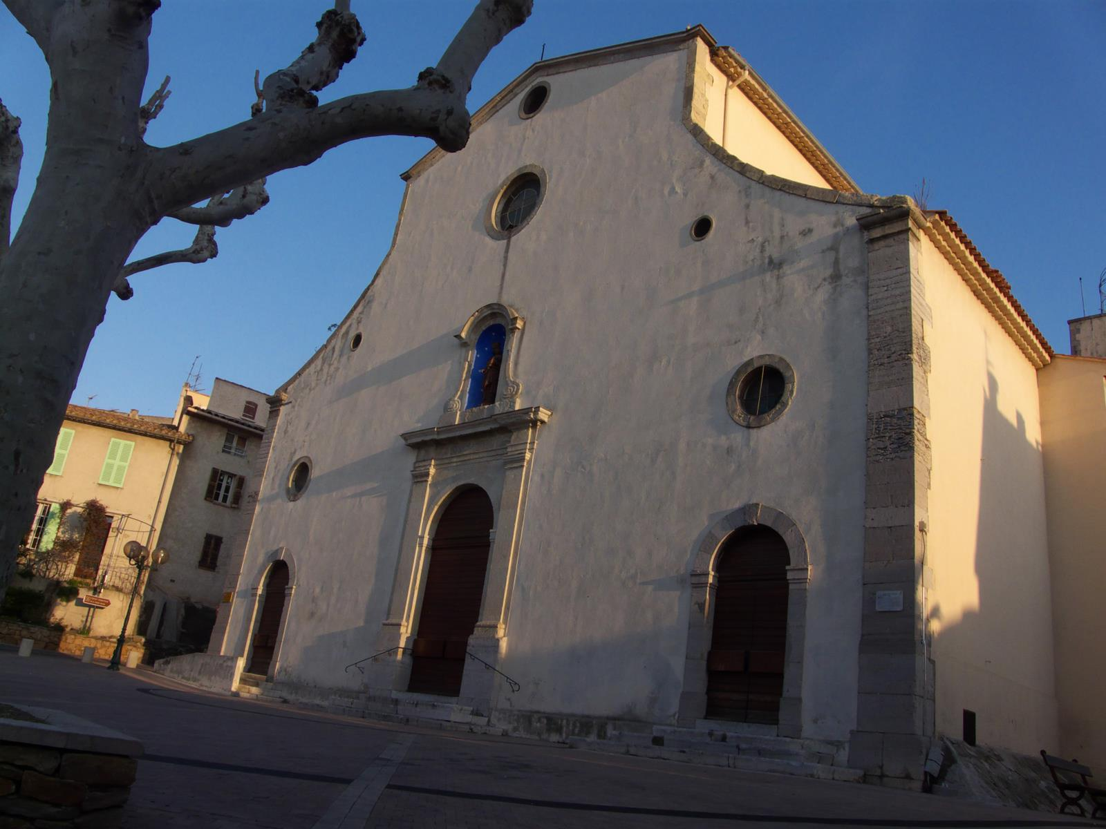 Church of La Garde, Var